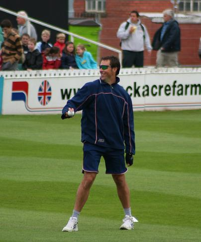 Marcus Trescothick warming up at Taunton June 27 2007